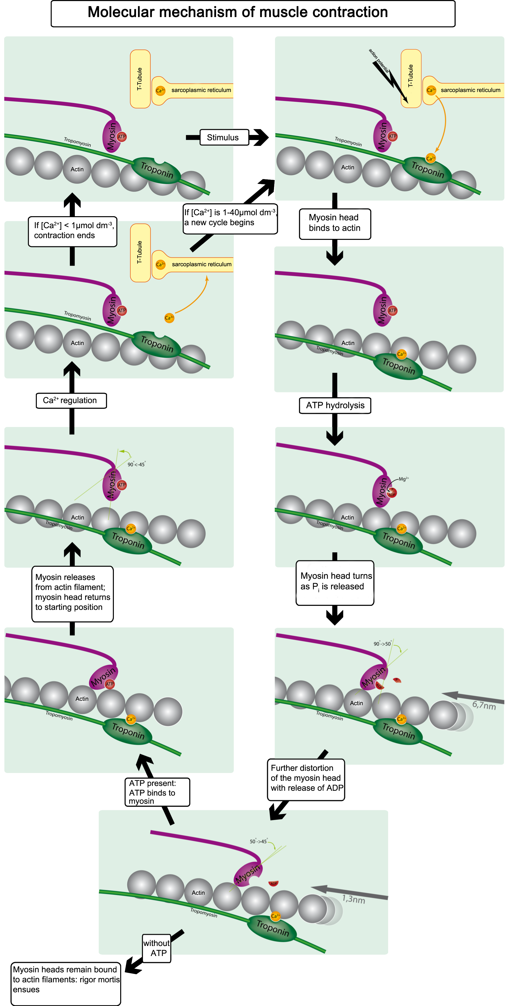 Molecular mechanism of muscle contraction in skeletal muscle.